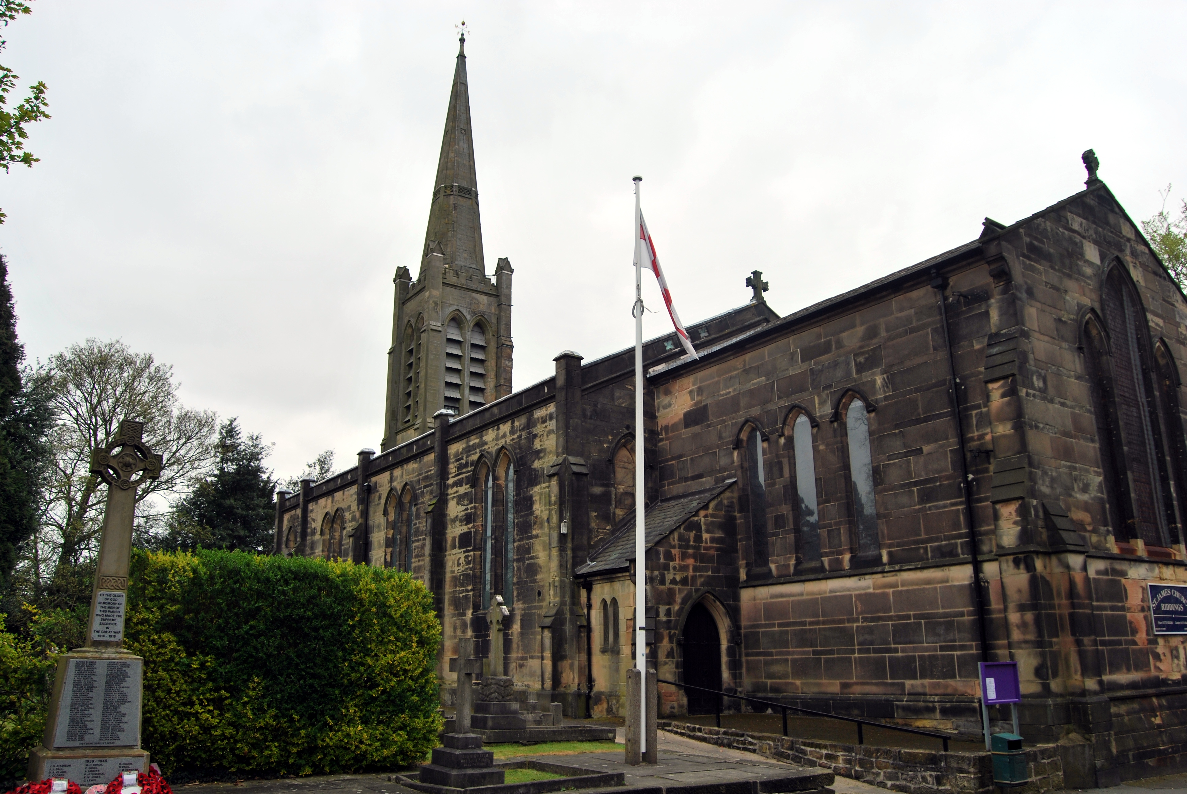 St James' parish church, Church Street, Riddings, Derbyshire, seen from the south.It is aligned north – south, with the chancel at the south and the tower and spire at the north.